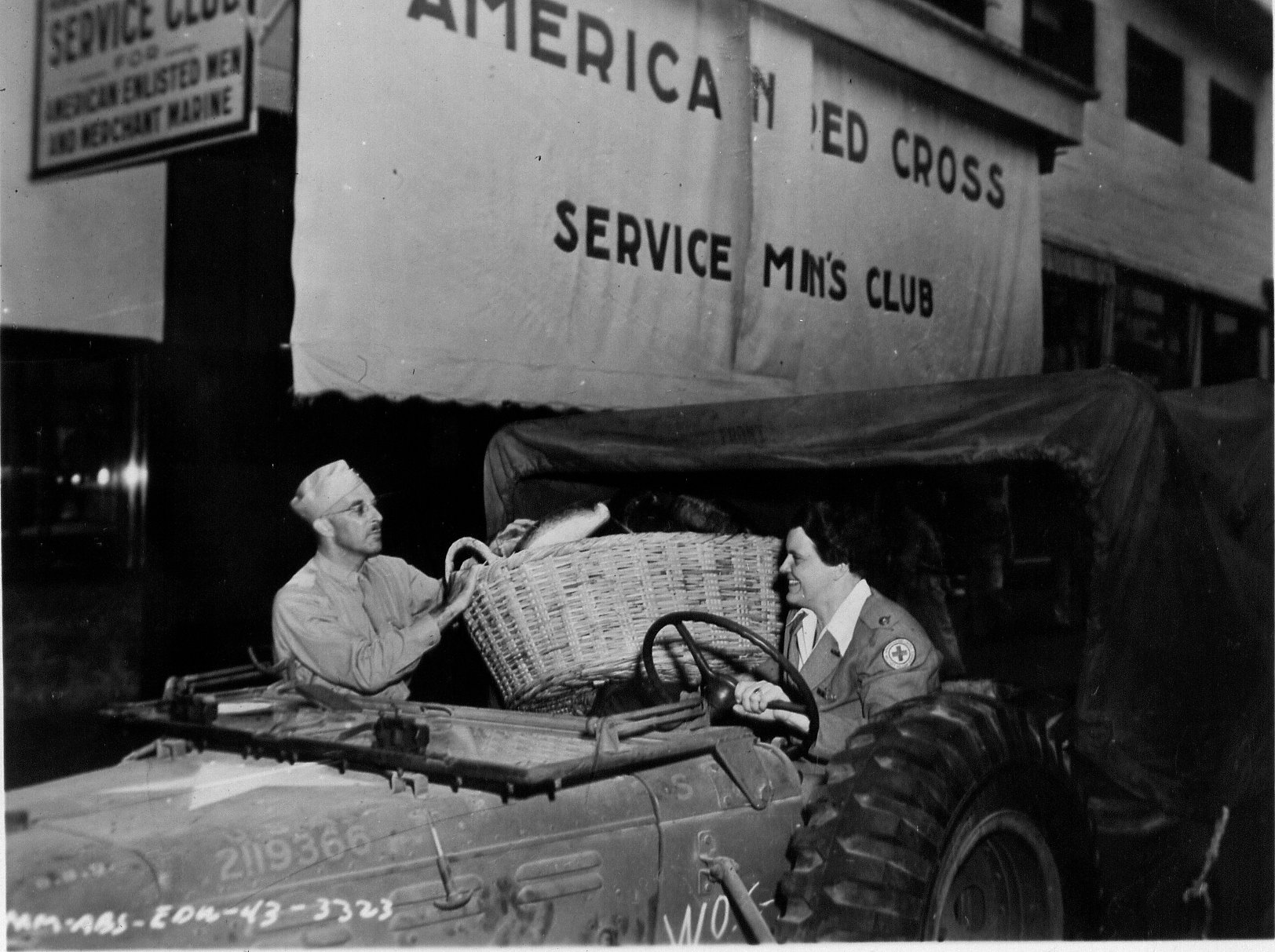 Kay Curtis as Red Cross Recreational Director in Sicily